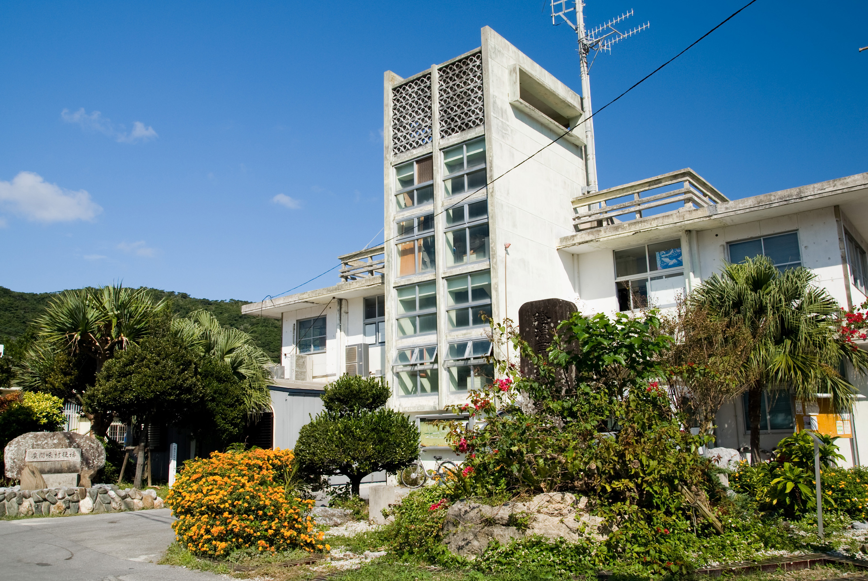 Zamami village office in Okinawa Prefecture, Japan.